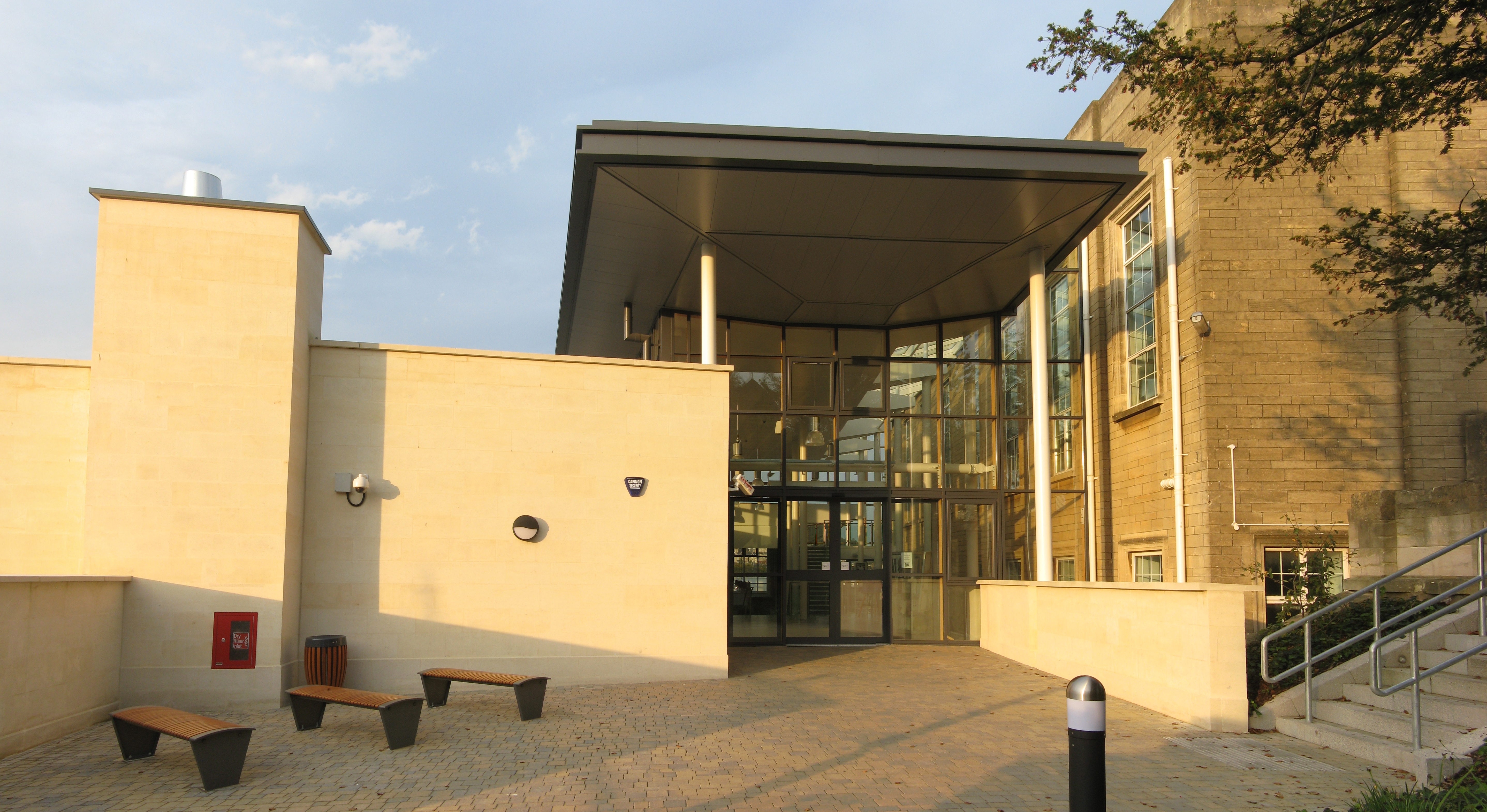 The new entrance to the upper school of Hayesfield Girls' School, part of a major extension opened in 2011.